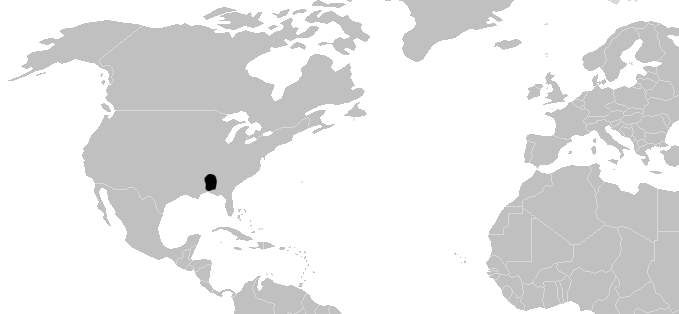 Known range of Myrmekiaphila neilyoungi, after data from Bond & Platnick, 2007.